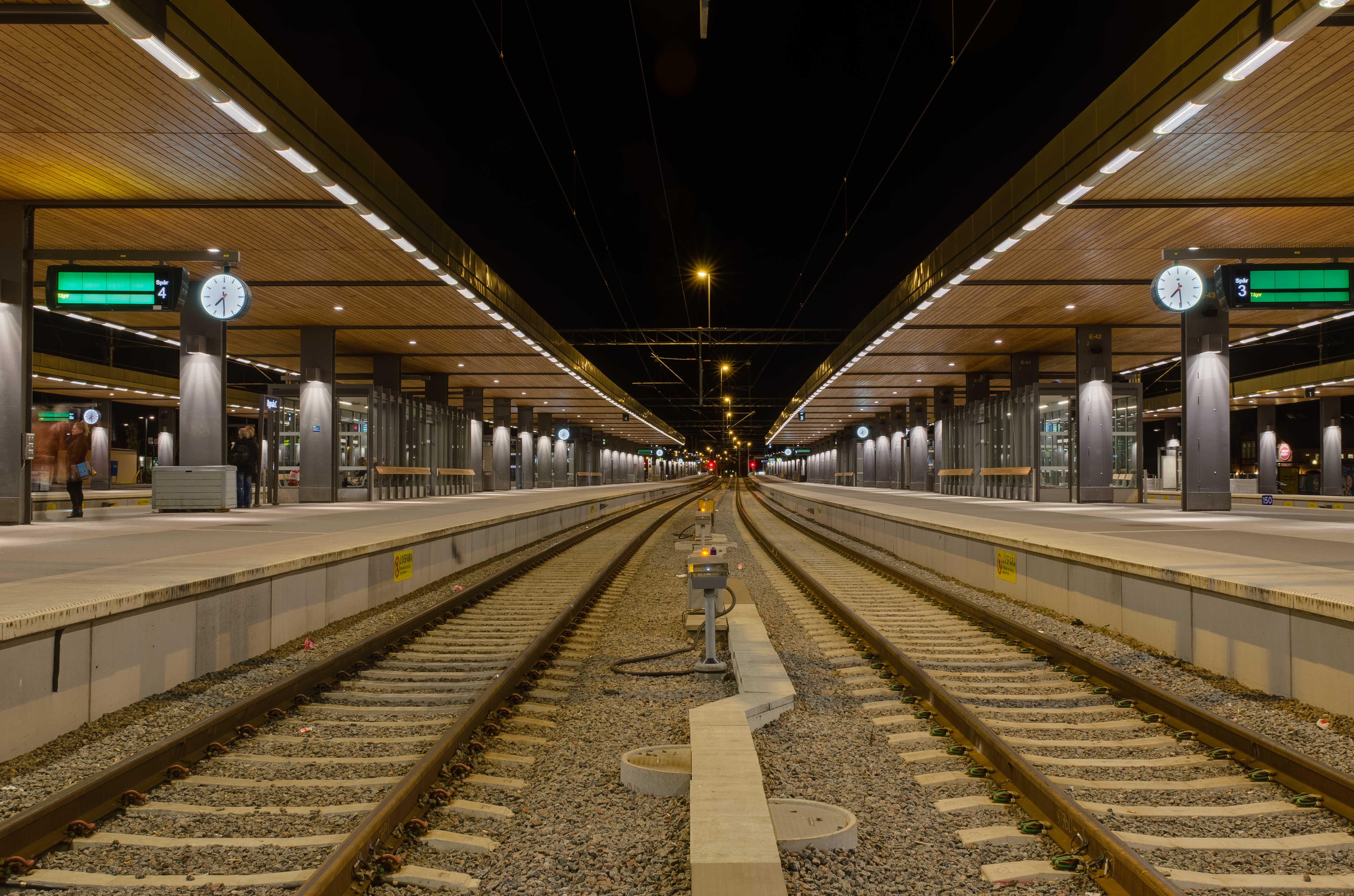 Tracks at Uppsala Central Station. The station was rebuilt 2005-2009. Note: exposure fusion (3 exposures).